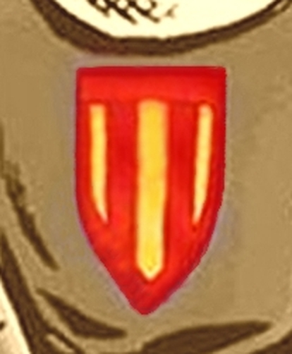 Coat of arms of Capitan Trueno a cadency of the coat of arms of the crown of Aragon